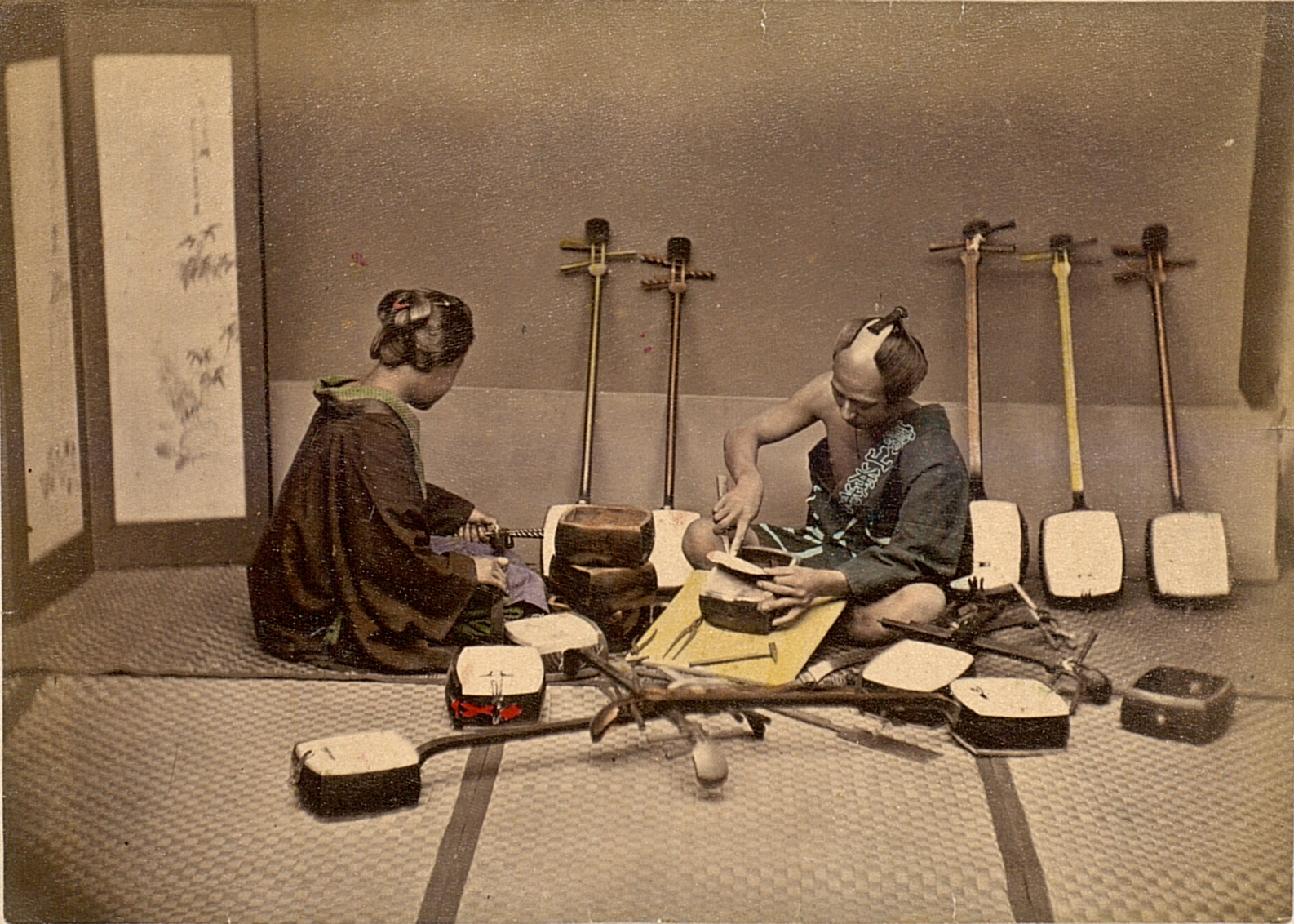 Shamisen crafter with a customer, c. 1909. Photo courtesy UVM Libraries' Center for Digital Initiatives :: The University of Vermont :: Burlington, VT 05405